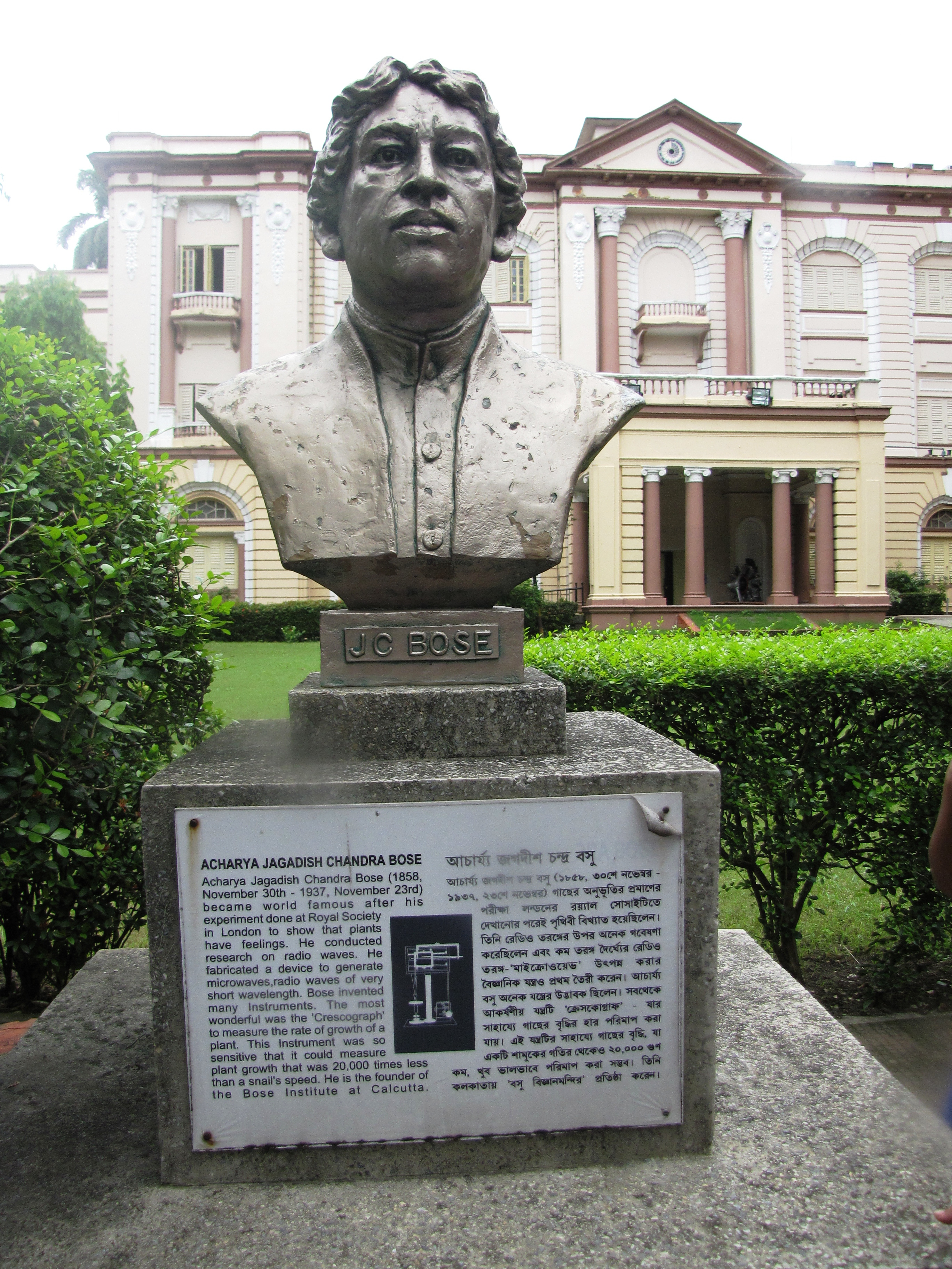 Bust of Acharya Jagadish Chandra Bose, Bengali polymath, physicist, biologist, botanist, archaeologist, as well as an early writer of science fiction, which is placed in the garden of Birla Industrial & Technological Museum.